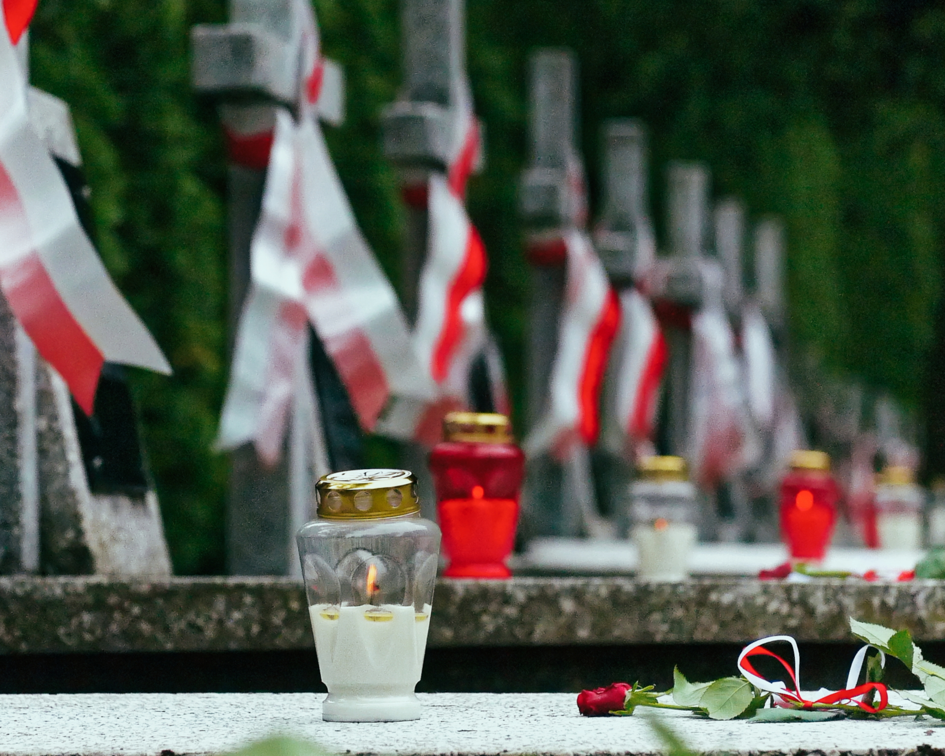 Ełk - the municipal cemetery No.1 - August 2016